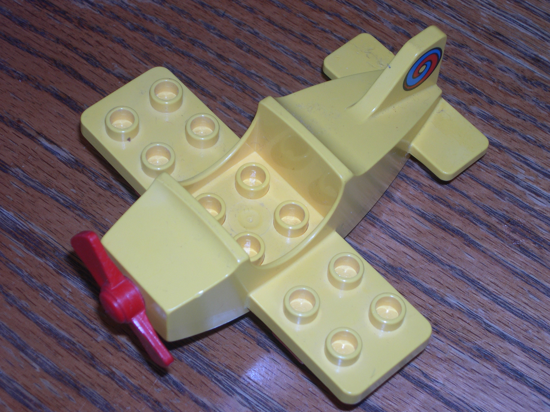 A special Lego block shped like an airplain